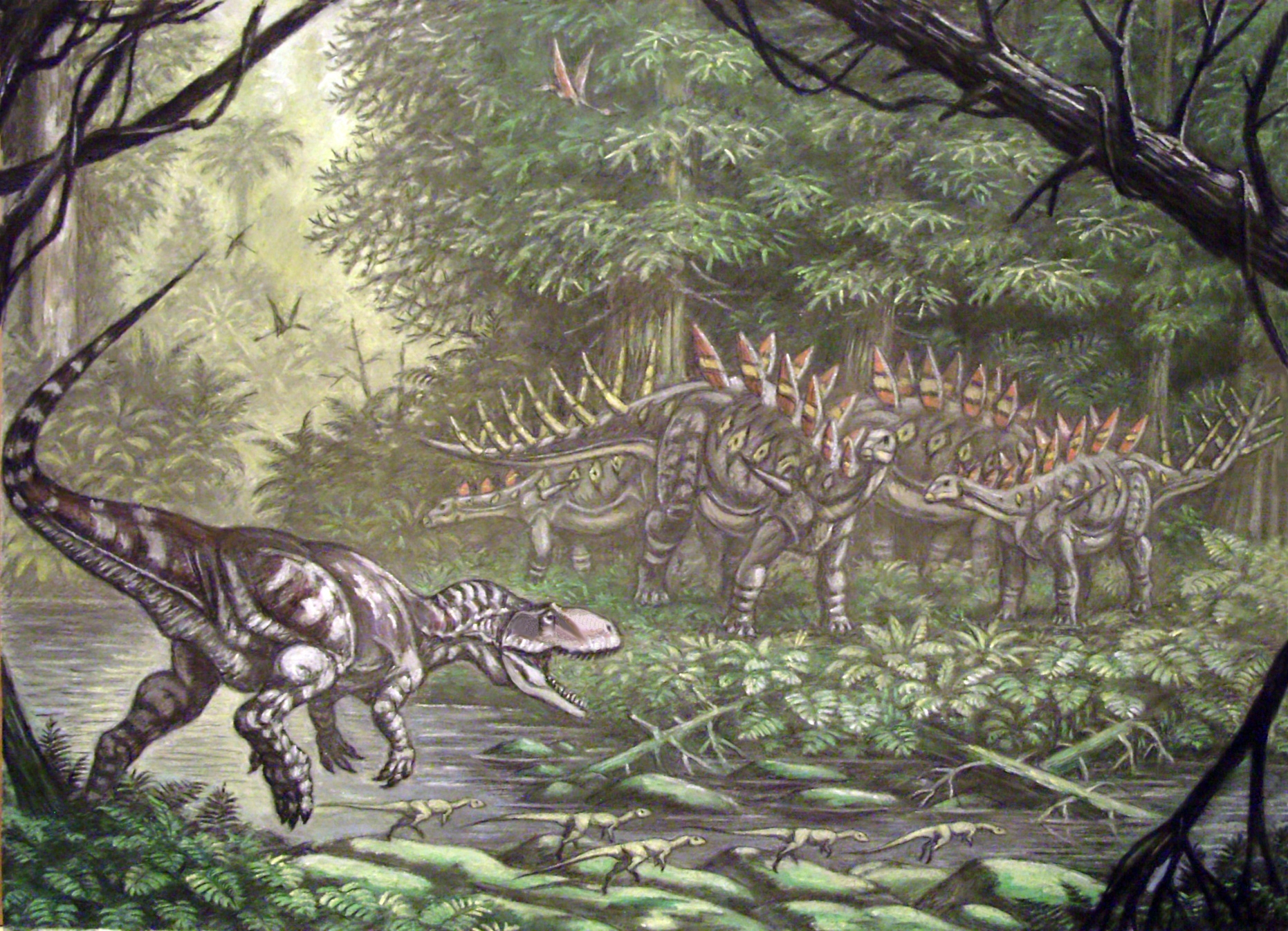 Eustreptospondylus attacking Lexovisaurus.